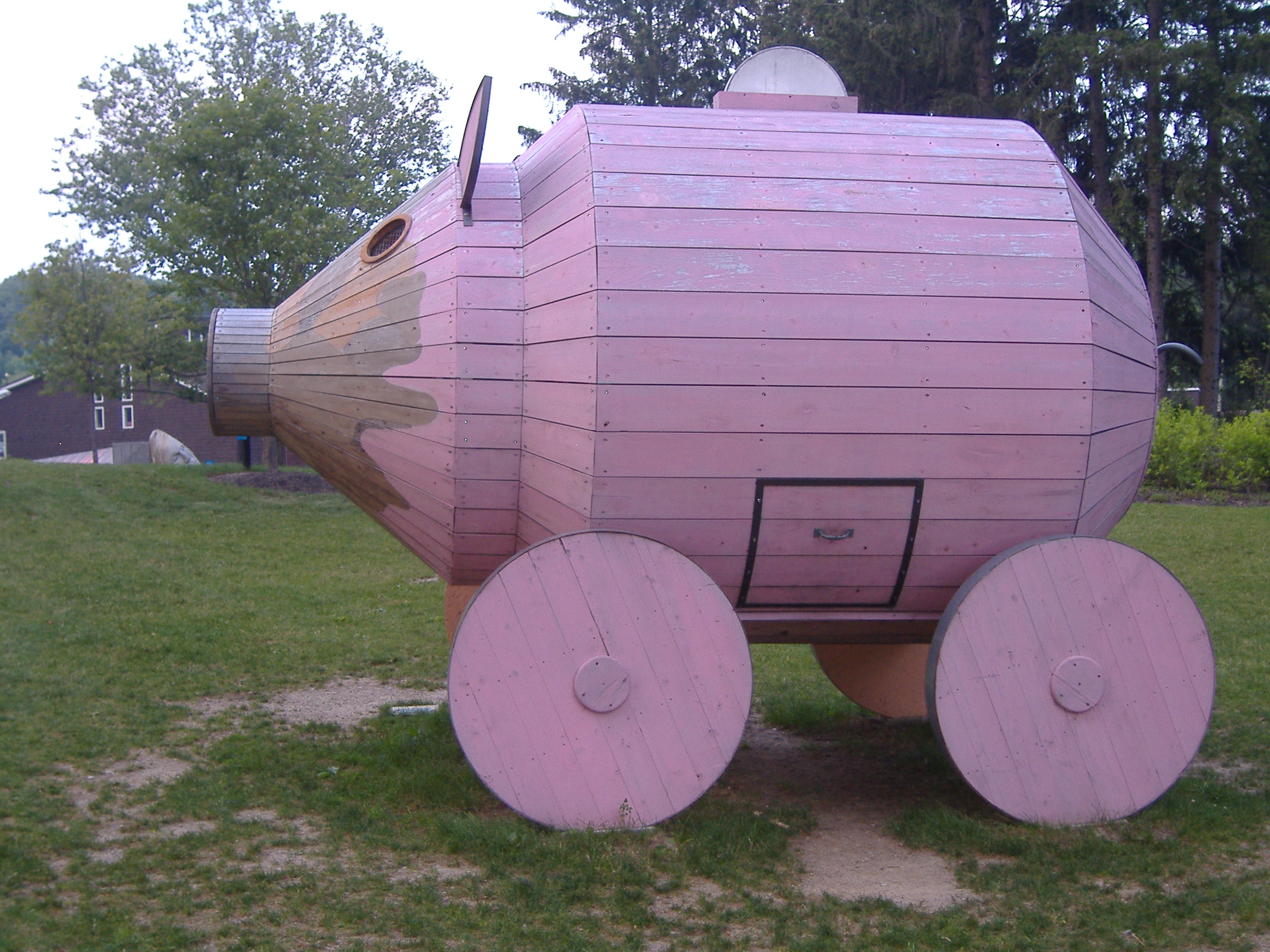 Trojan Piggybank, 2004, wood, steel, 11’ x 8’ x 10’, by Aristotle Georgiades and Gail Simpson at DeCordova Museum and Sculpture Garden, Lincoln, Middlesex County, Massachusetts